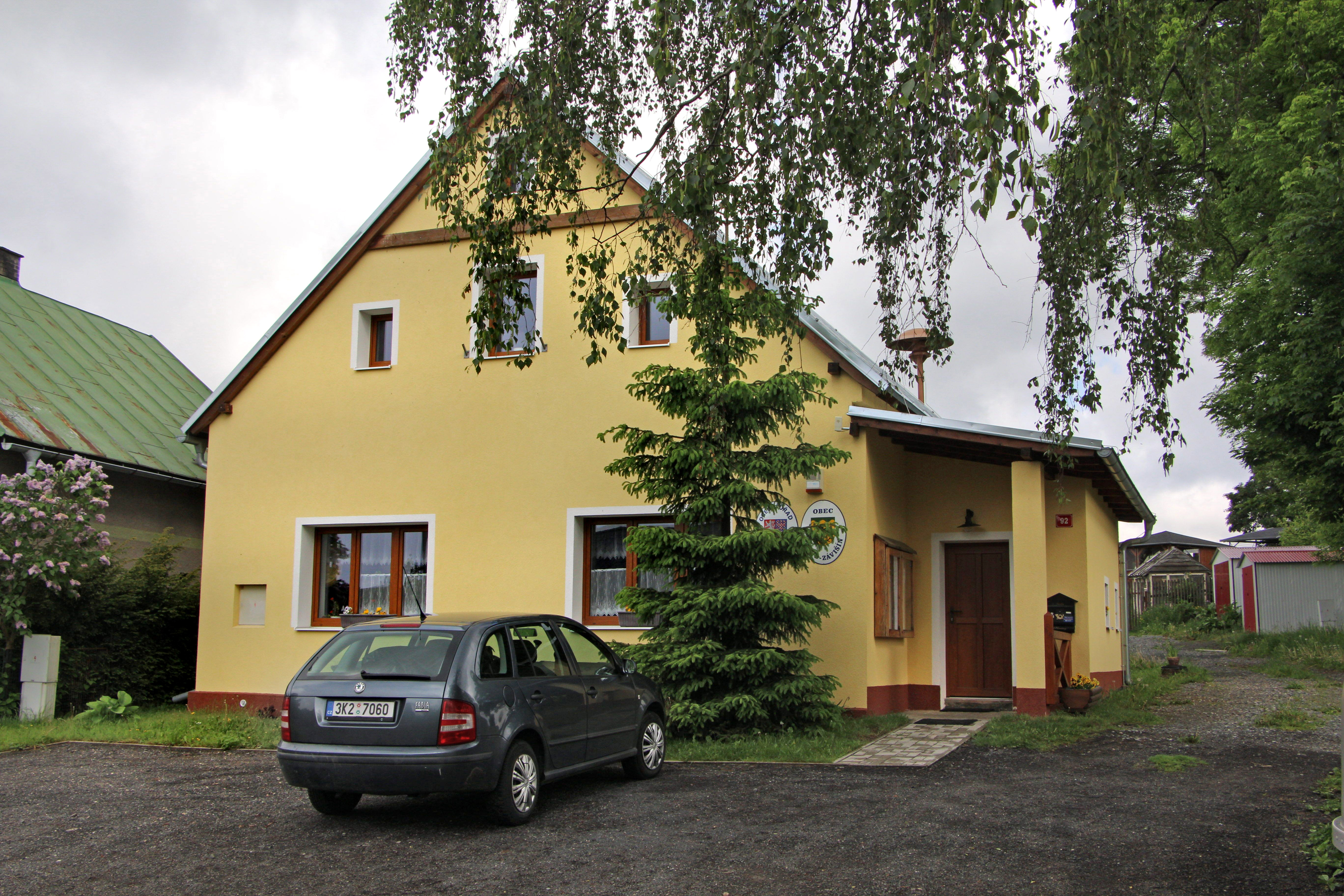 Municipal office in Zádub, part of Zádub-Závišín, Czech Republic.